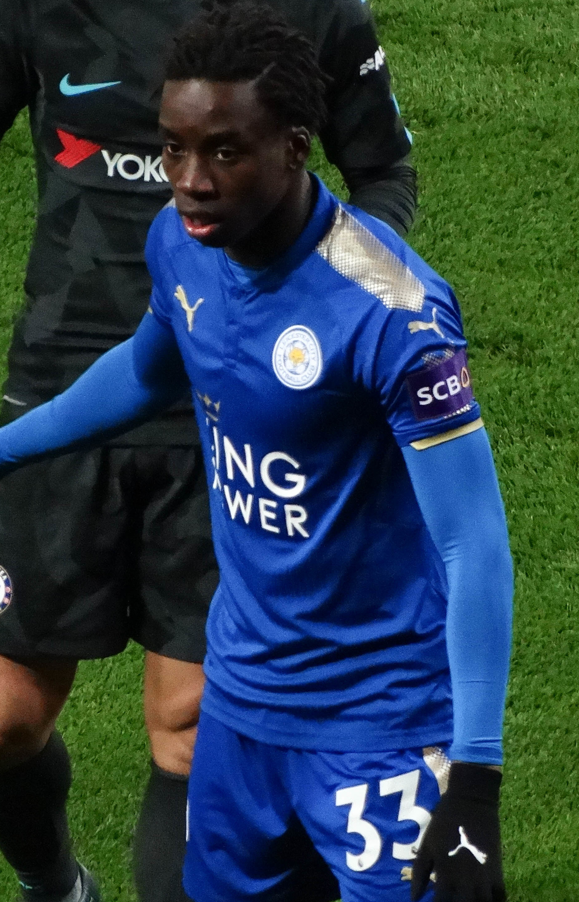 FA Cup QF 18.3.18